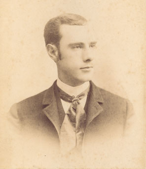 Robert Lee Madison (1867–1954), Cullowhee High School (also called Cullowhee Academy) founder, served as first president of Cullowhee High School, later Cullowhee Normal and Industrial School, from 1889-1912 and also 1920-1923.